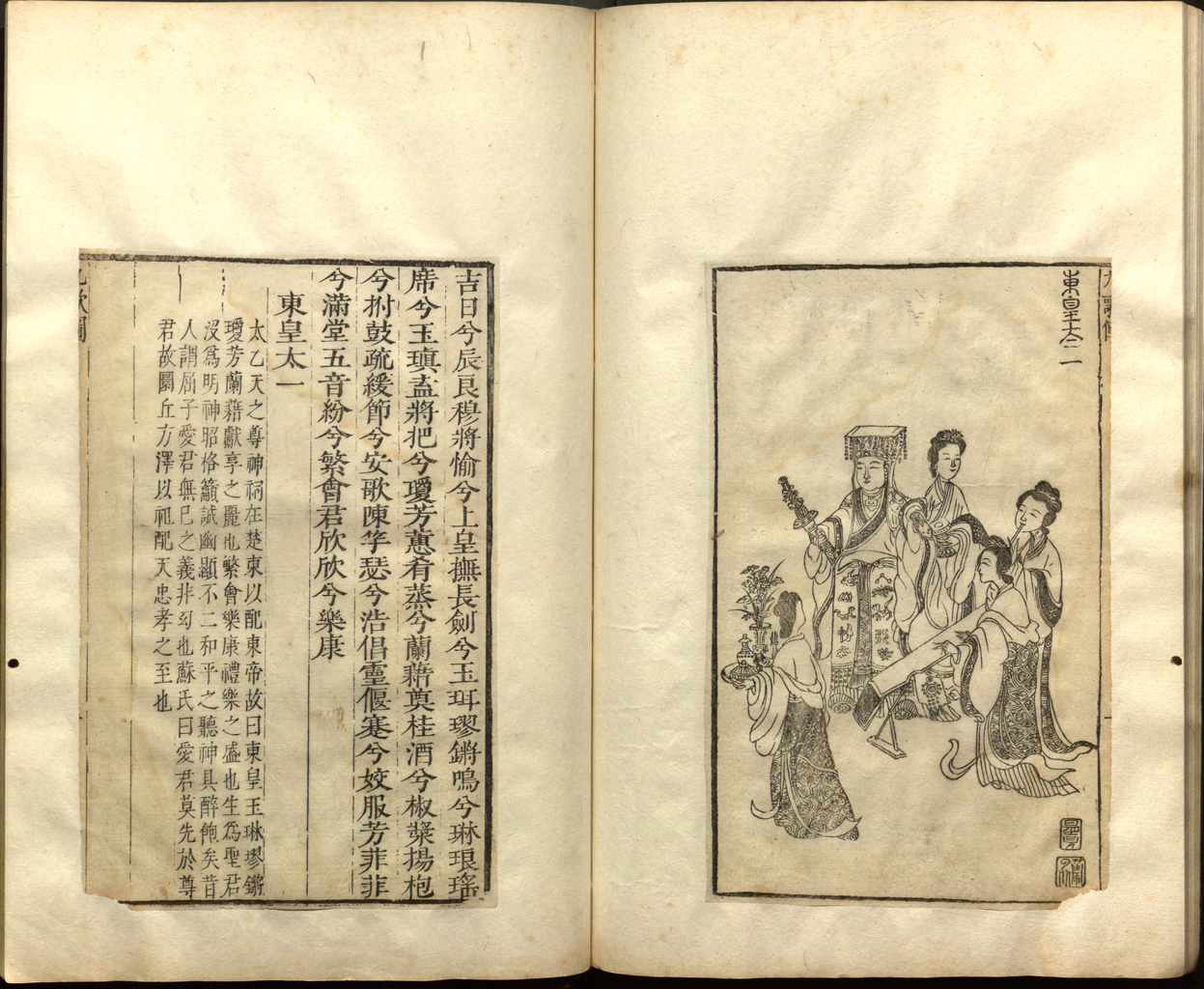 "Great Unity East Emperor" (Dong Huang Tai Yi), from Nine Songs section, poem number 1 of 11, of annotated version of Chu Ci, published under title Li sao, author attribution as Qu Yuan (actual authors of the Nine Songs section unknown), and with illustrations by Xiao Yuncong.